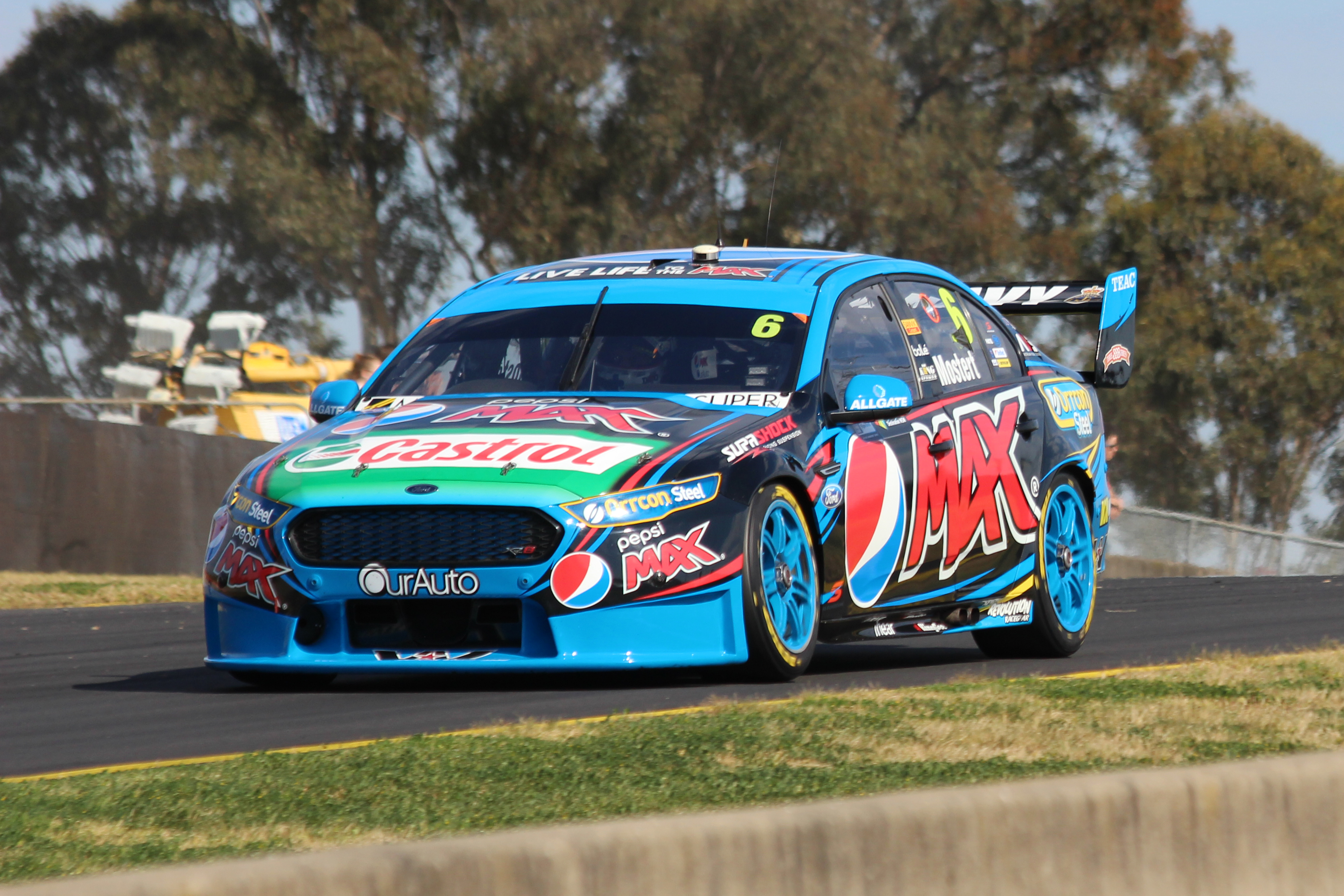 Chaz Mostert during a practice session at the 2015 Sydney Motorsport Park Super Sprint.